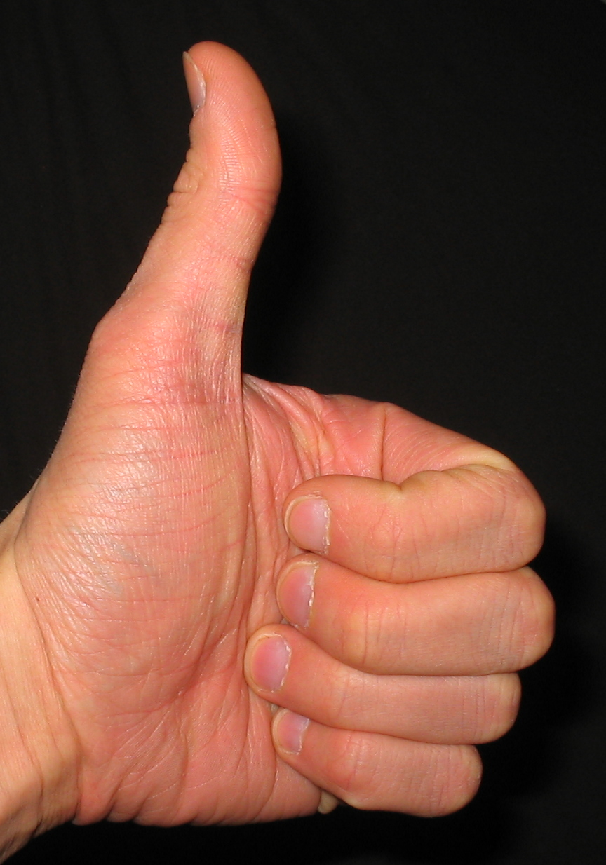 A left human thumb, making the "thumbs-up" gesture. David Benbennick took the photograph on March 14, 2005 at 9:30 PM (local time).